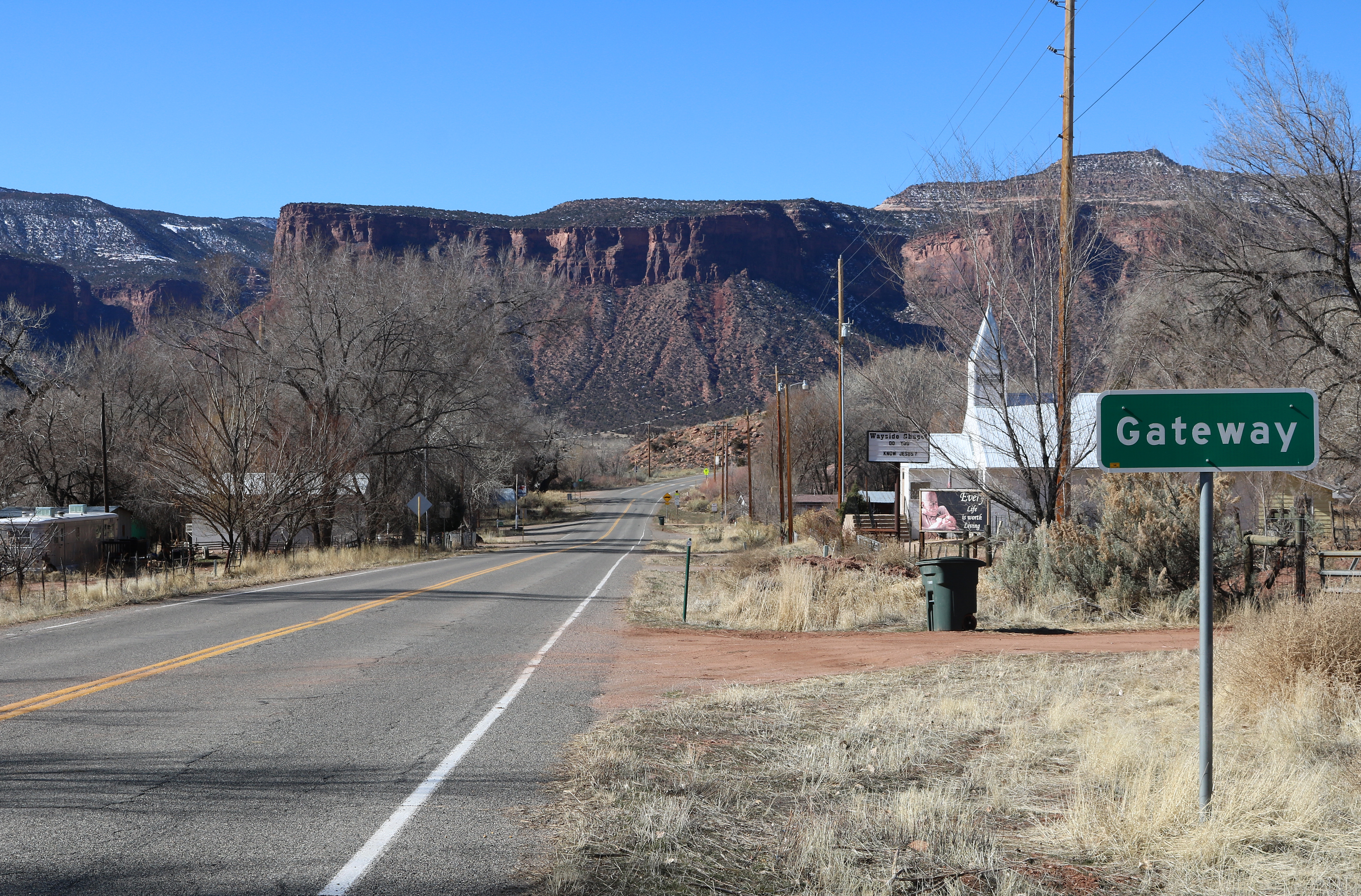 Entering the town of Gateway, Colorado from the east on Colorado State Highway 141.